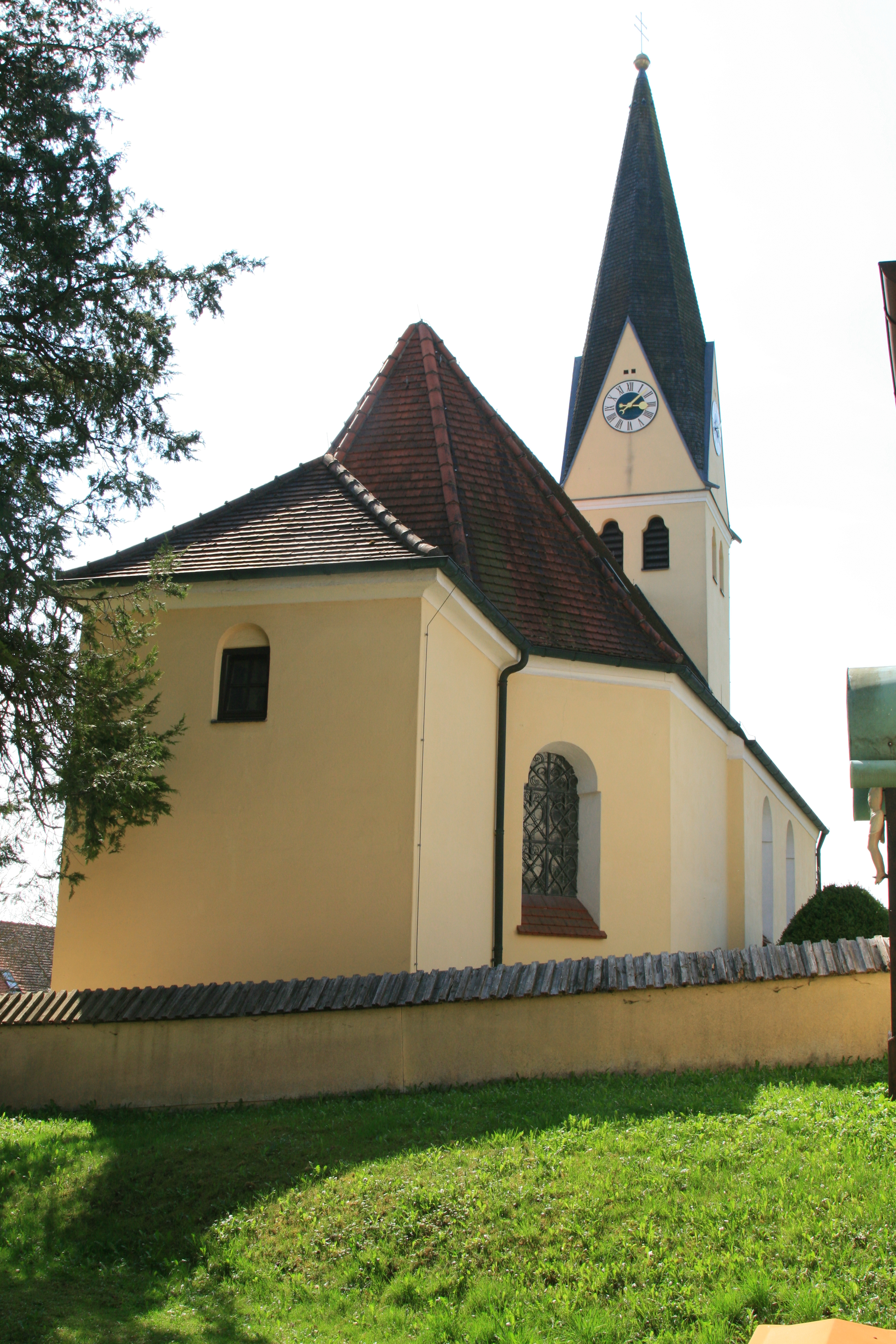 Church St. Mauritius, situated in Unteralting - Grafrath, upper Bavaria, Germany